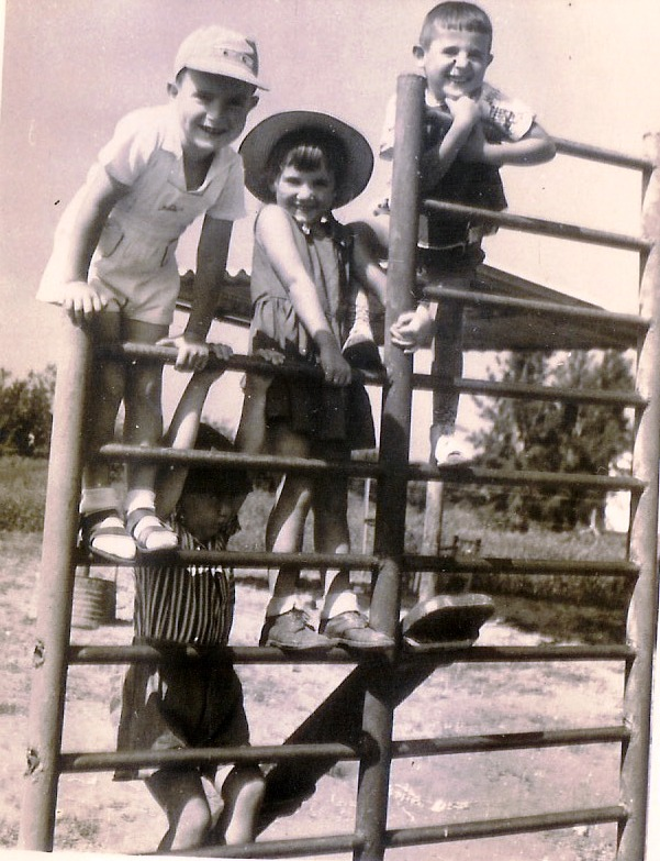 Yard of the kindergarten, Education in Israel